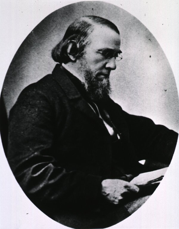 Charles Harrison Stedman, M.D. Half length, seated, face to right, reading. John Curwen, The original thirteen members of the Association of Medical Superintendents of American Institutions for the Insane, 1885. History of Medicine Div., NLM, WZ 140 AA1 C9o 1885.